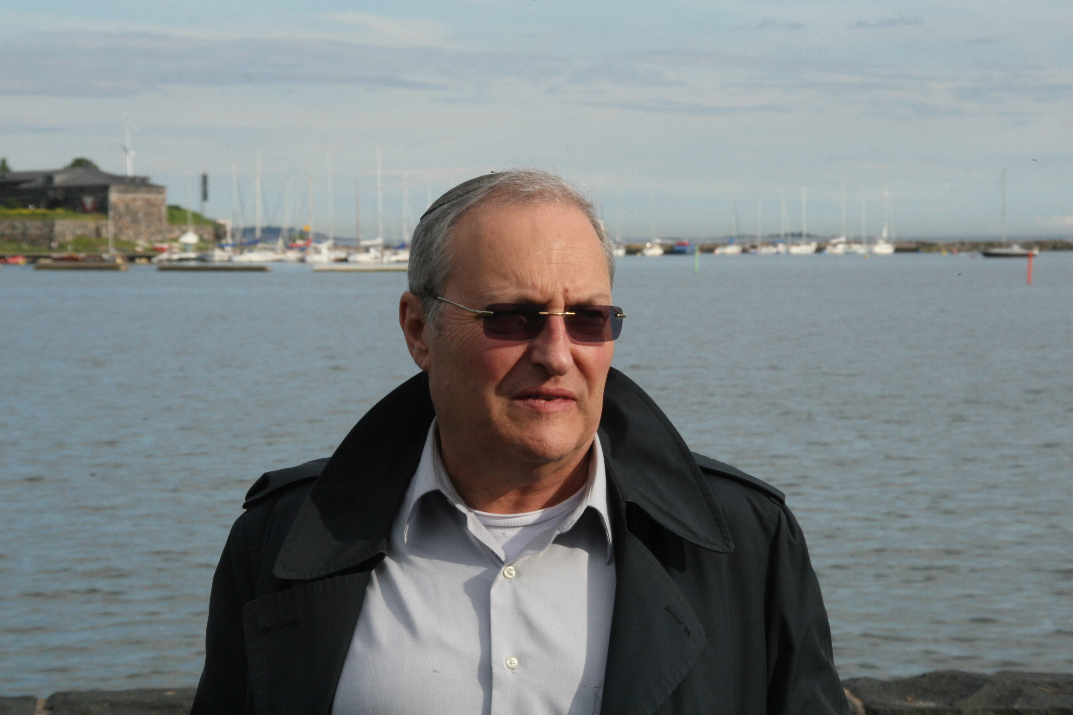 Efraim Zuroff in Helsinki in June 2012.